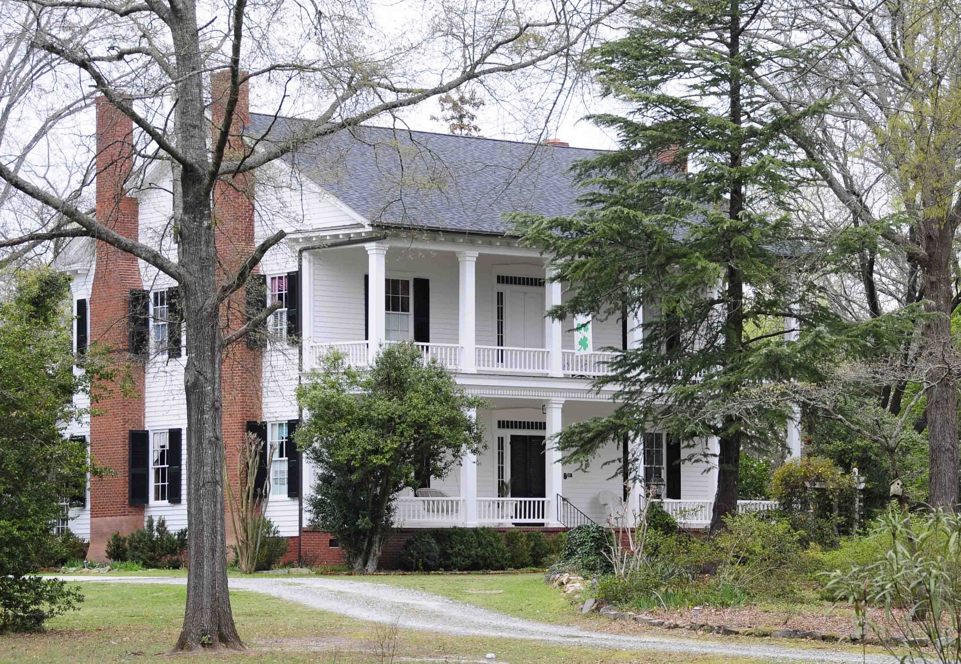 Timberhouse